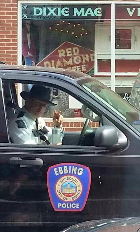 Woody Harrelson during filming on Main Street, Sylva, NC in front of Dixie Mae Vintage Market in May 2016. Sylva was the main location for the filming of "Three Billboards Outside Ebbing, Missouri"